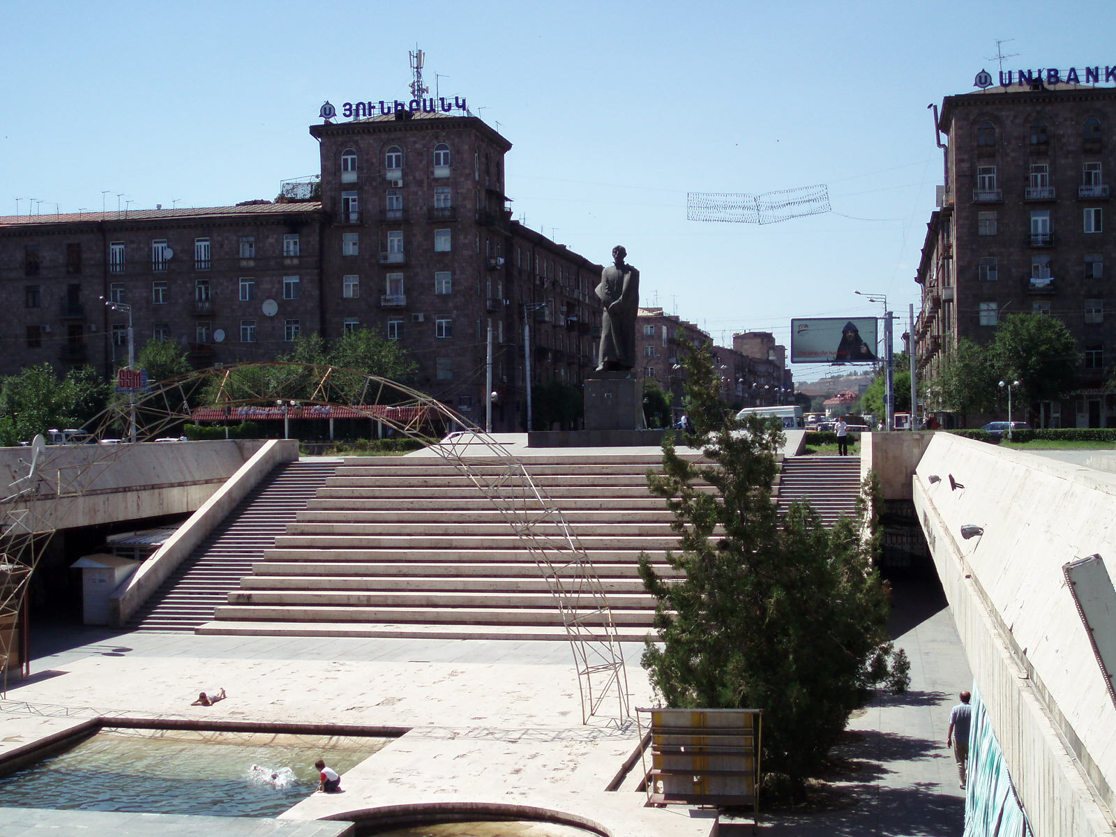 Spandaryan statue at Garegin Njdeh square metro station, Yerevan.